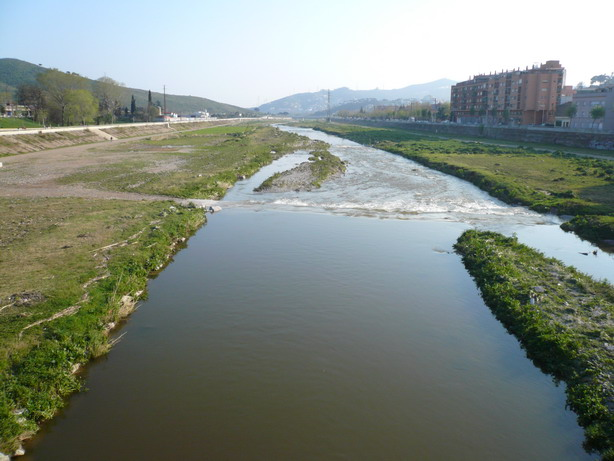 River Besòs in Montcada i Reixac, Vallès Occidental, Catalonia